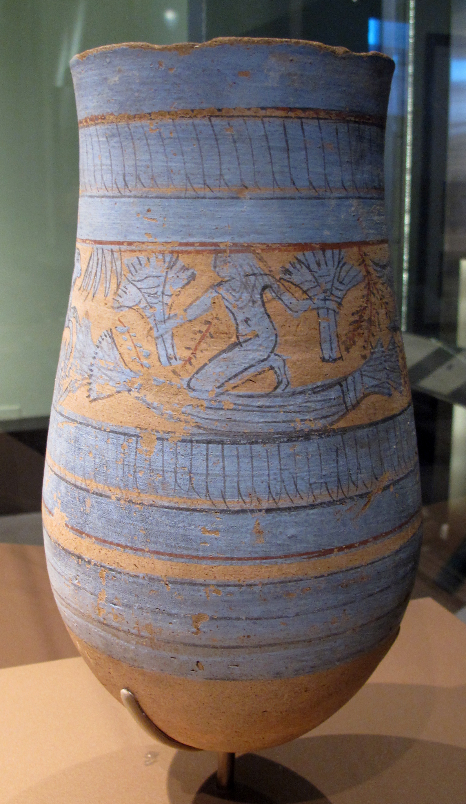 Egyptian antiquities in the Brooklyn Museum